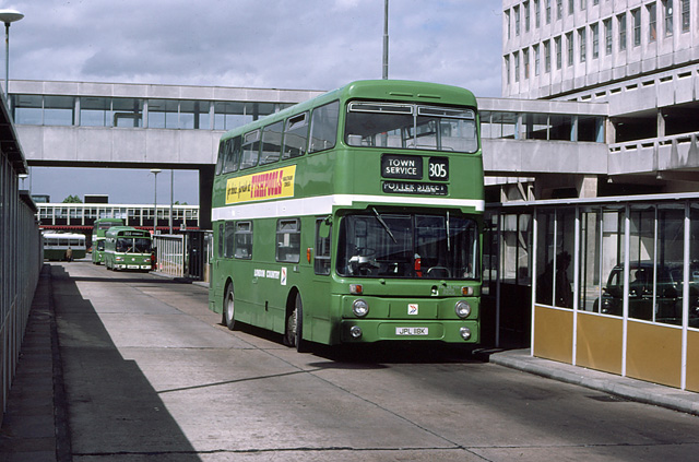 Harlow Bus Station. A view from the late 1970s when services were provided by the National Bus Company under its London Country brand. London Country originally was part of London Transport but was separated out from January 1970. It was absorbed into the National Bus company (NBC) in 1972. The double decker, on the 805 for Potter Street, is AN18, a Leyland Atlantean with Park Royal bodywork. It is painted in NBC Leaf Green. It was in service with London Country and their successors from 1972 until May 1988.